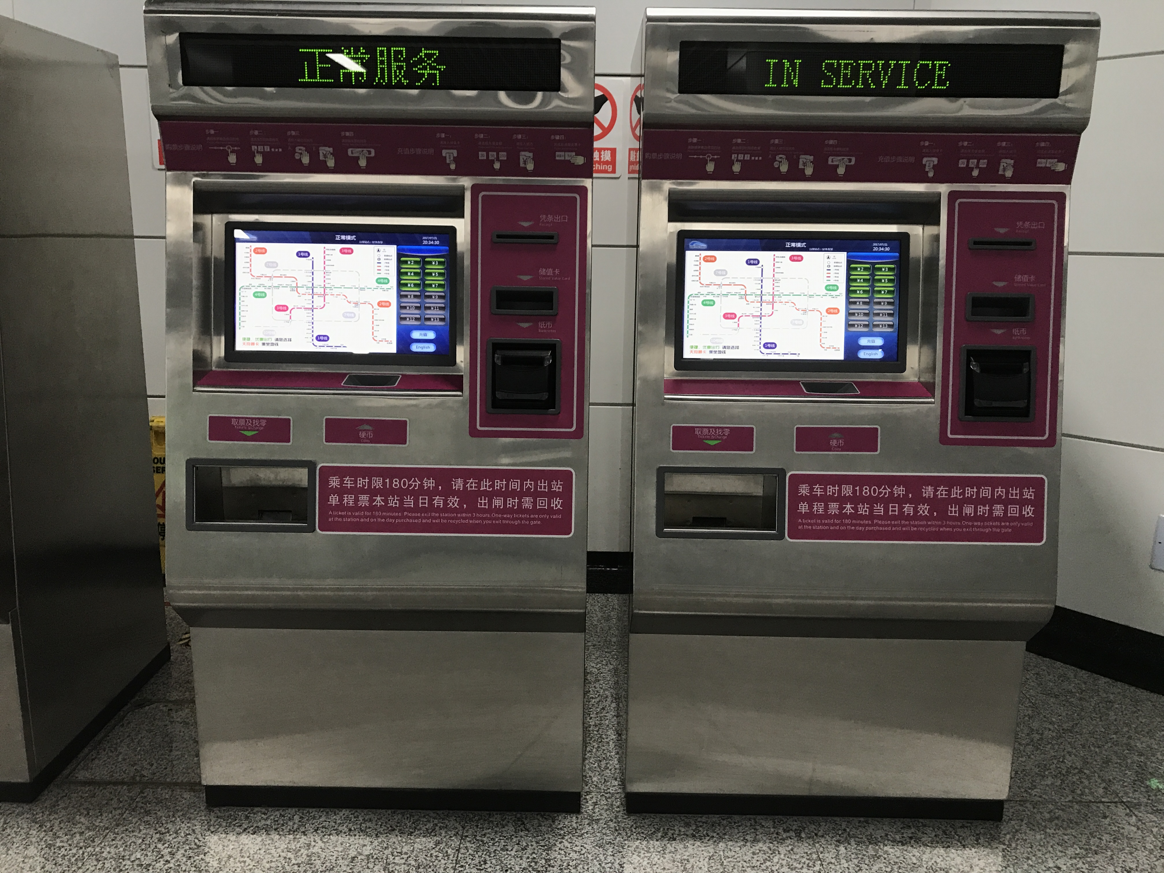 TVM of Line 3 in Sichuan Gymnasium Station, Chengdu Metro